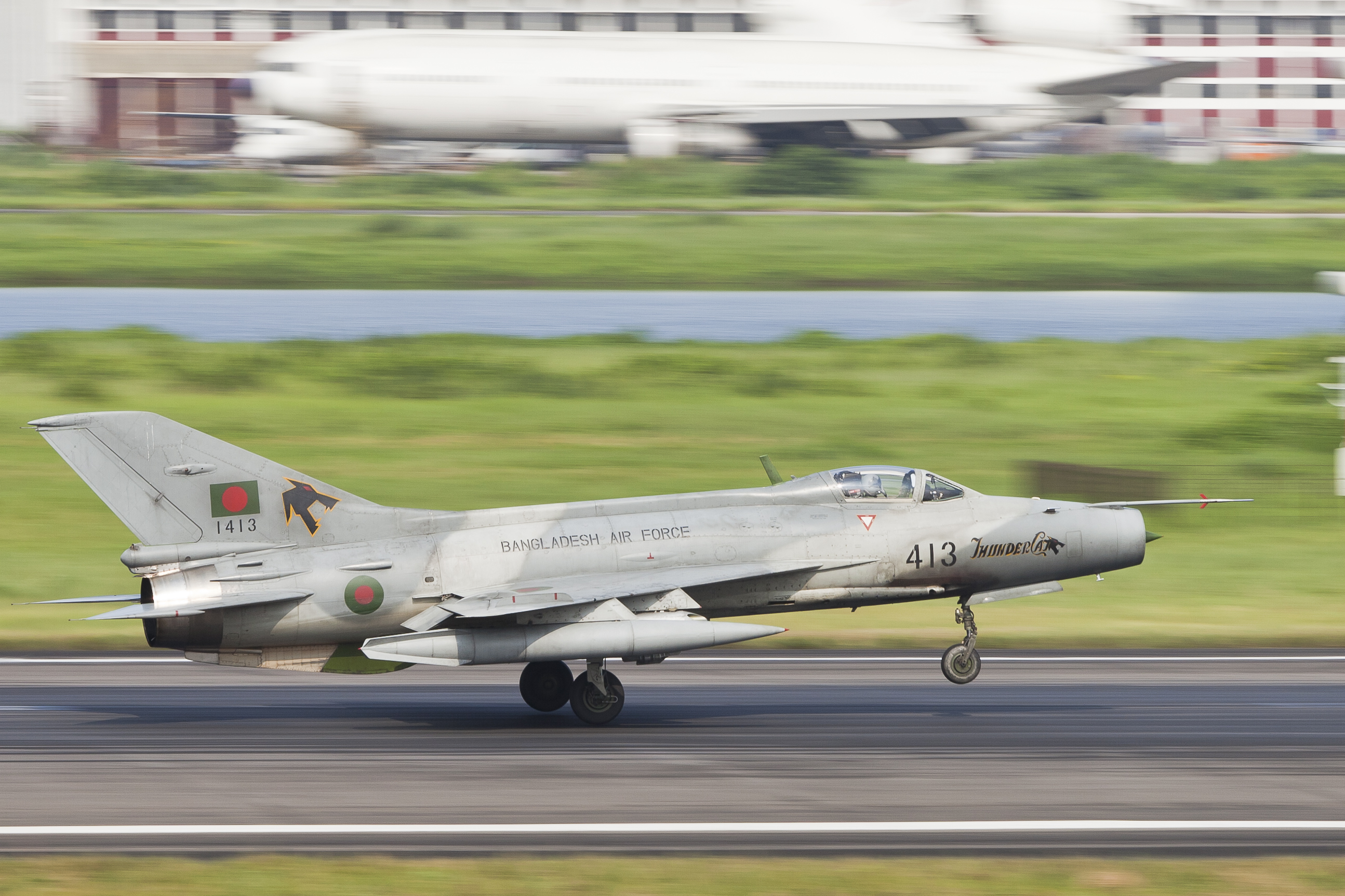 Bangladesh Air Force F-7 Air Guard Landing